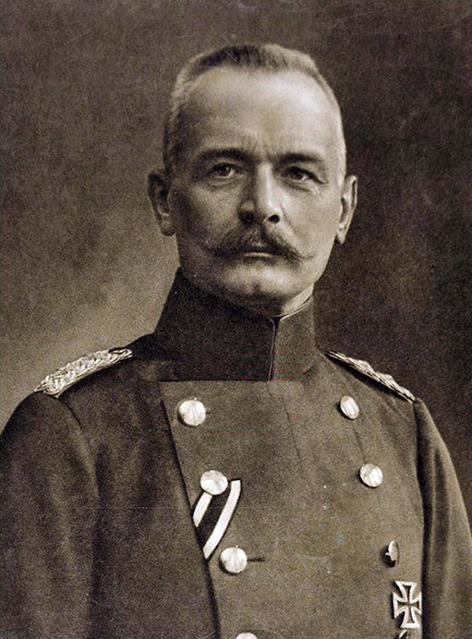 Erich von Falkenhayn. This image was retouched somewhere in the past. Compare with the original